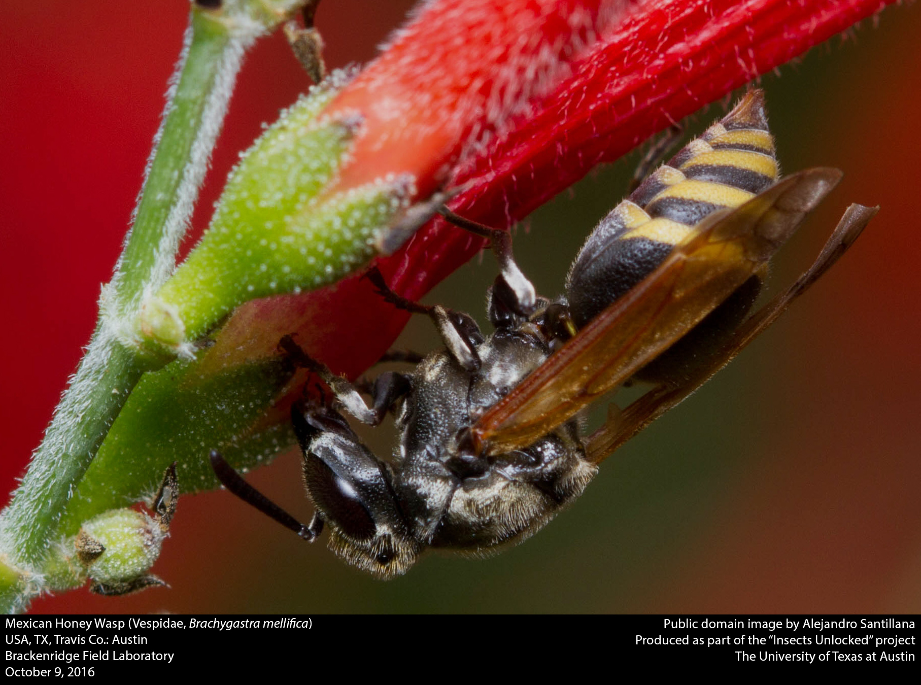 USA, TX, Travis Co.: Austin Brackenridge Field Laboratory 09-x-2016